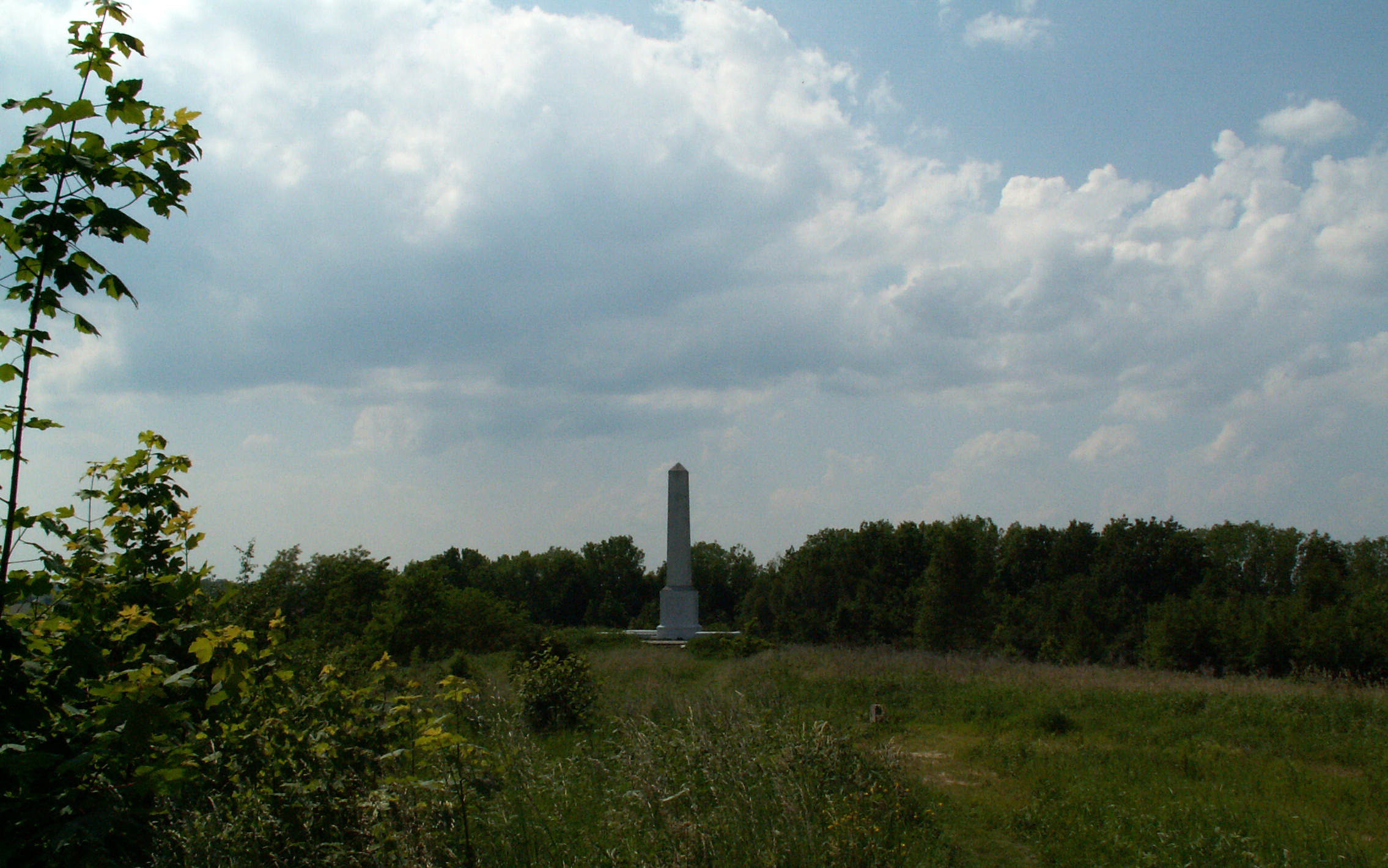 WWI, Kaim Hill Memorial, Krakow, Poland